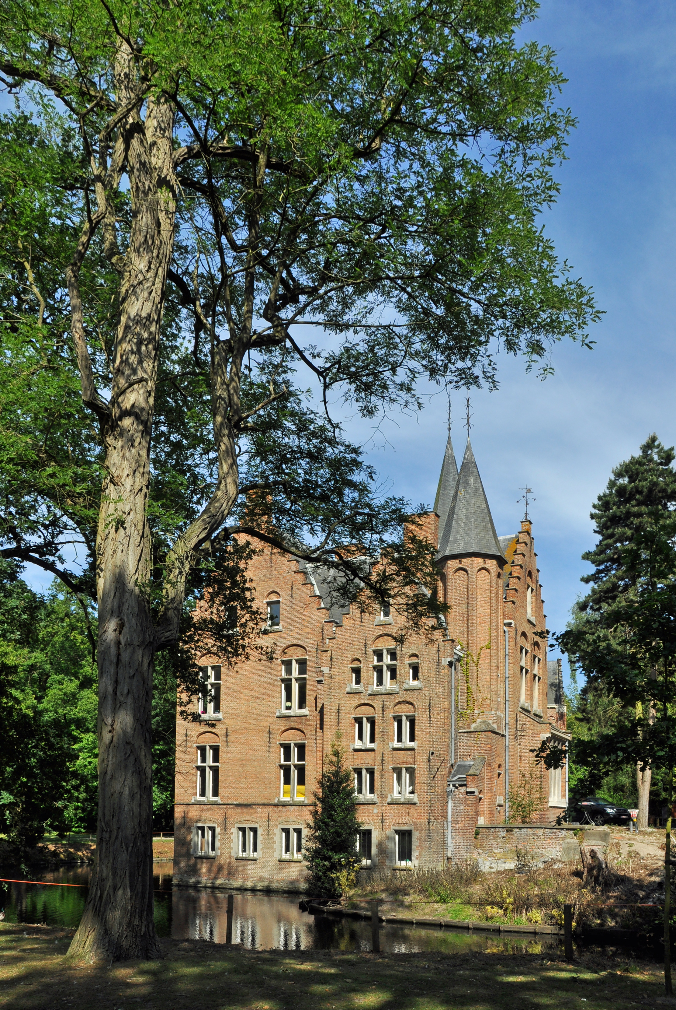 Sint-Andries (Bruges, Belgium): Koude Keuken castle